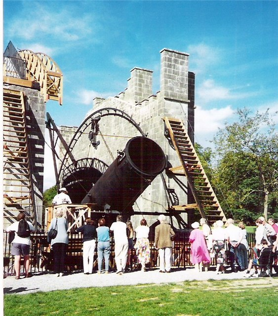 Birr Observatory telescope